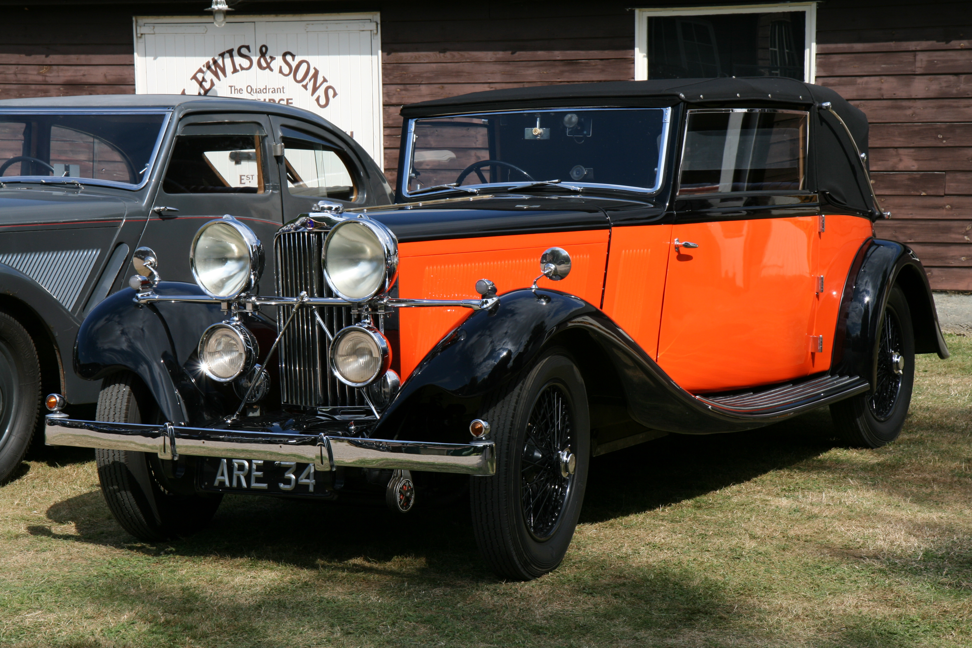 1934 Talbot 105 drophead coupé by James Young (DVLA) first registered 11 July 1934, 2978 cc Brooklands Reunion 14 August 2016